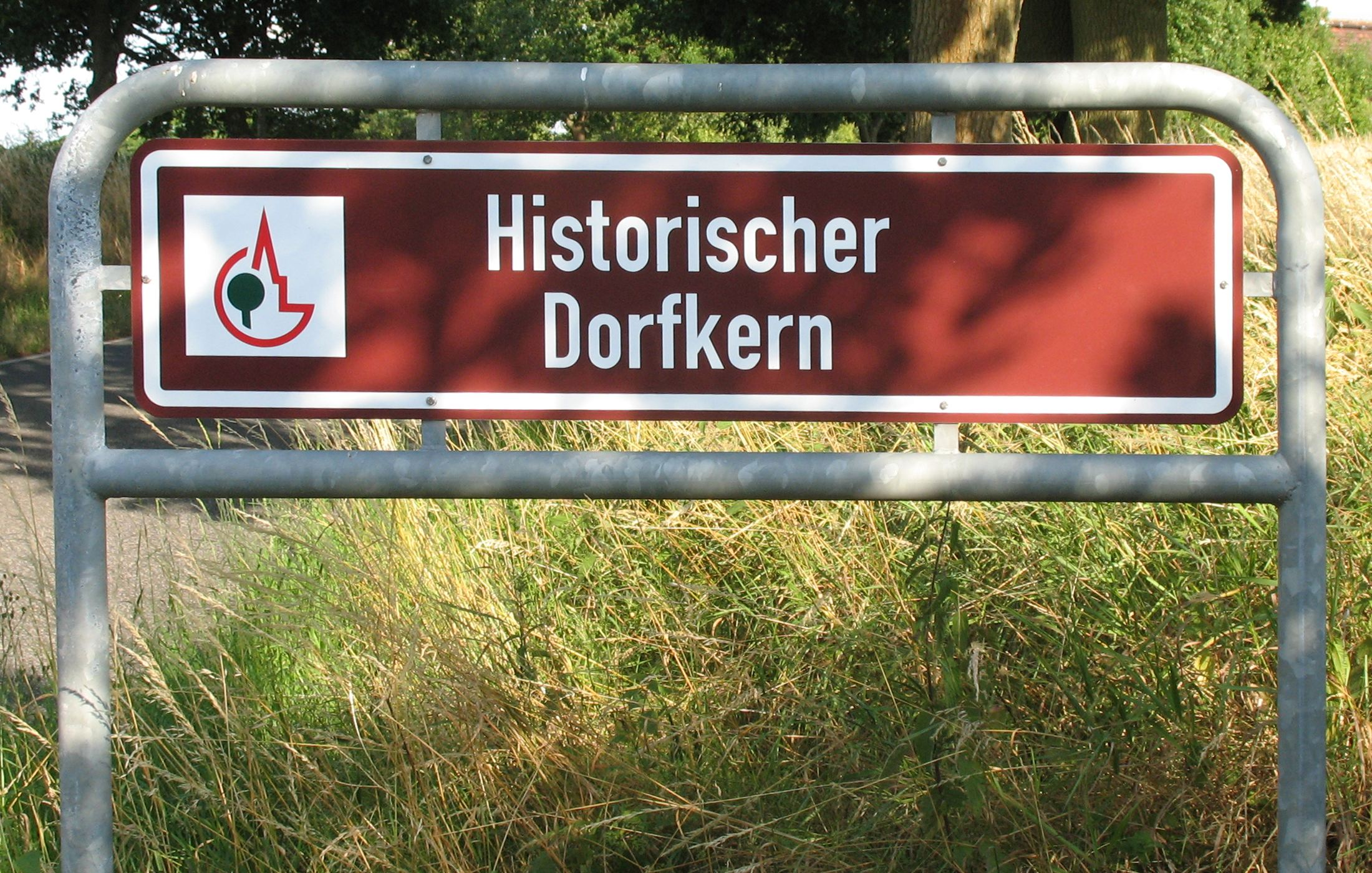 Road sign in Gransee-Buberow in Brandenburg, Germany